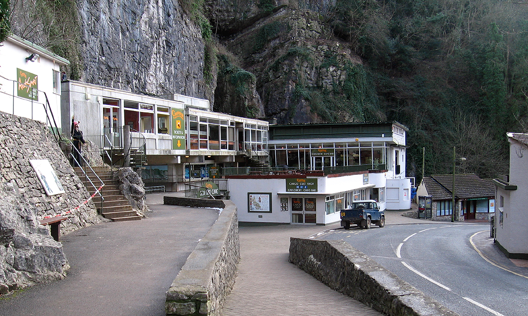 Gough's cave entrance, Cheddar Gorge in March 2006